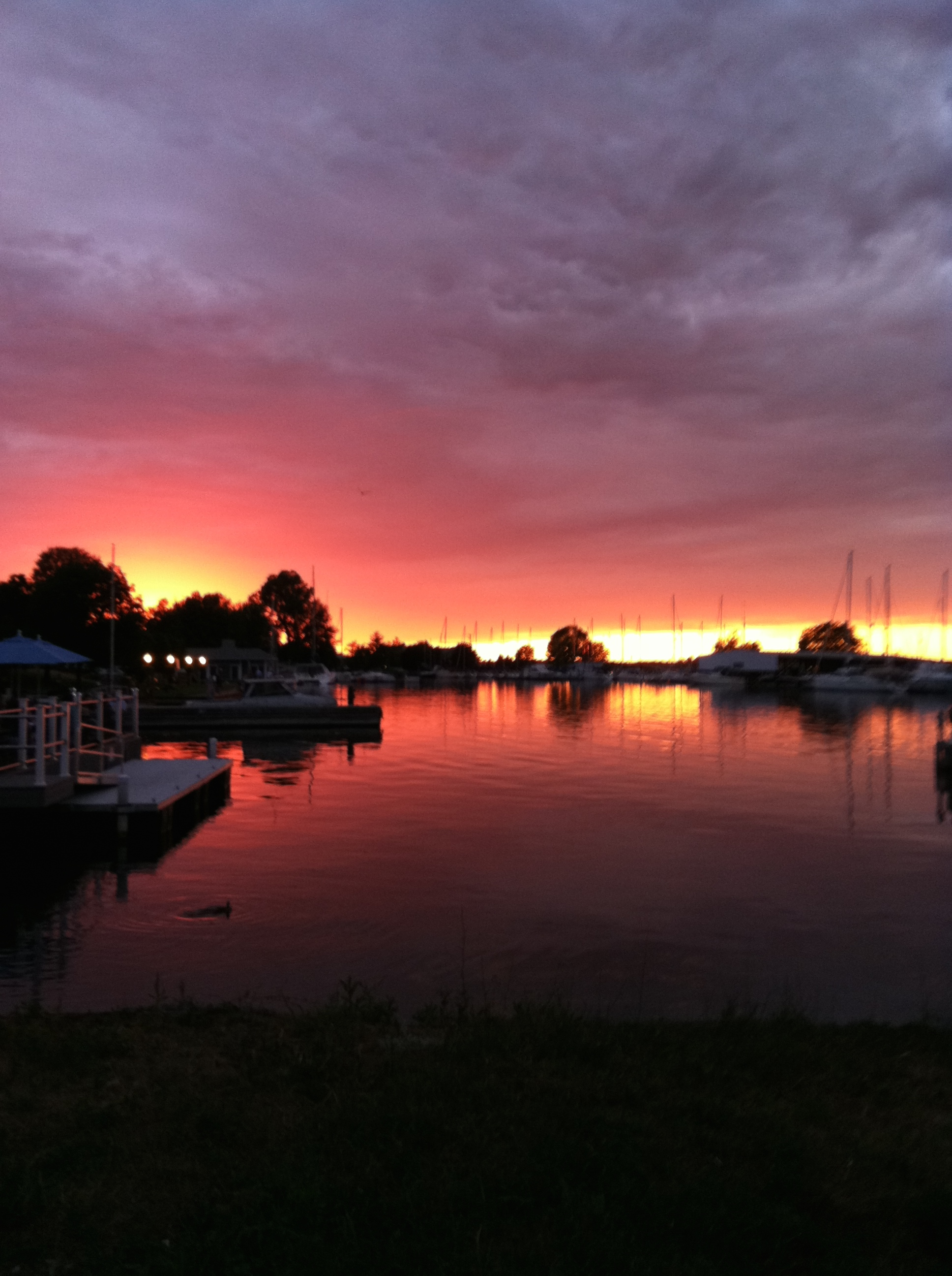 This image was taken in Sackets Harbor, NY looking out onto Lake Ontario.